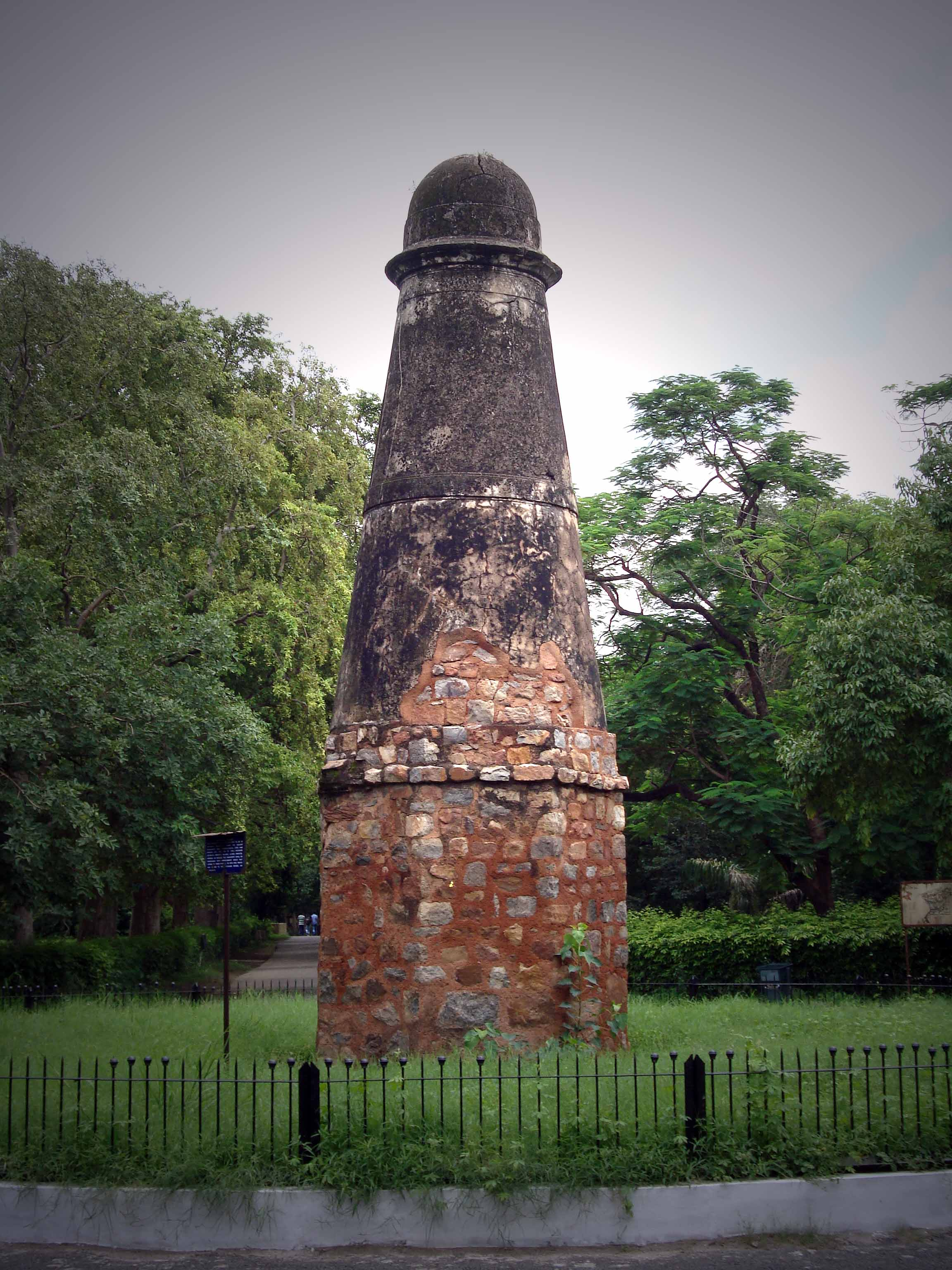 N-DL-6 Kos Minar or Mughal Mile stone